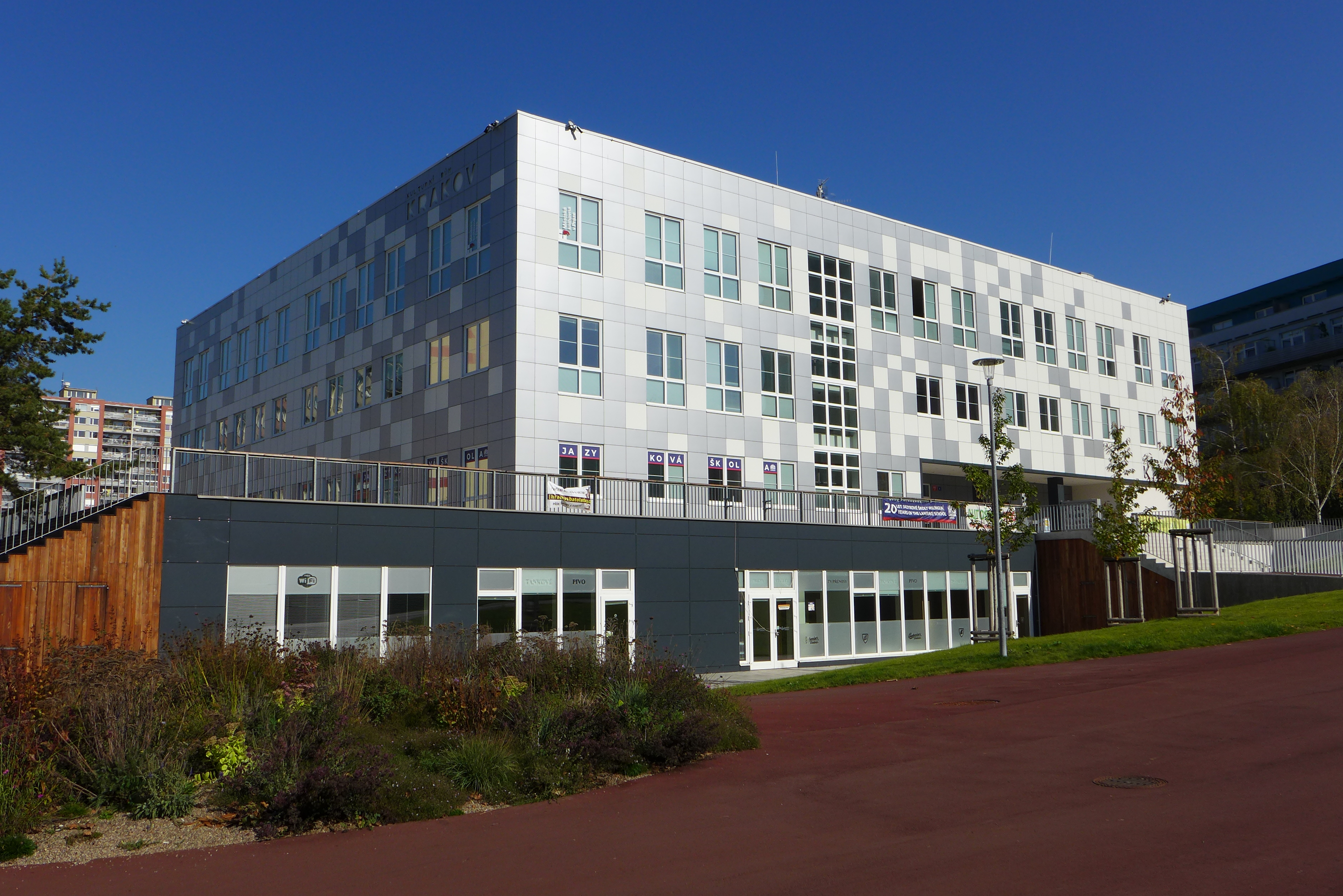 A view of the KD Krakov